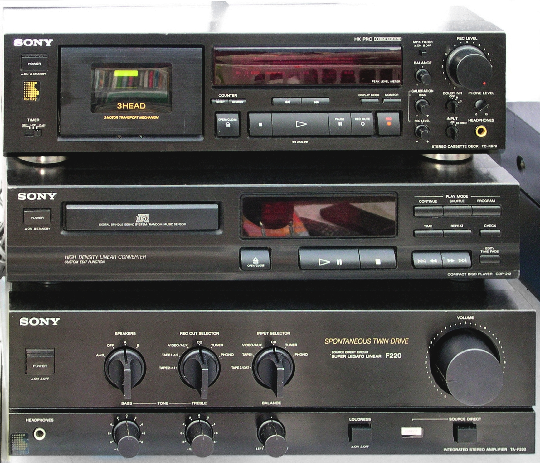 Sony TC-K670 tape deck (1991), Sony CDP-212 CD player (1993) and Sony TA-F220 amplifier (amp 1990-92)